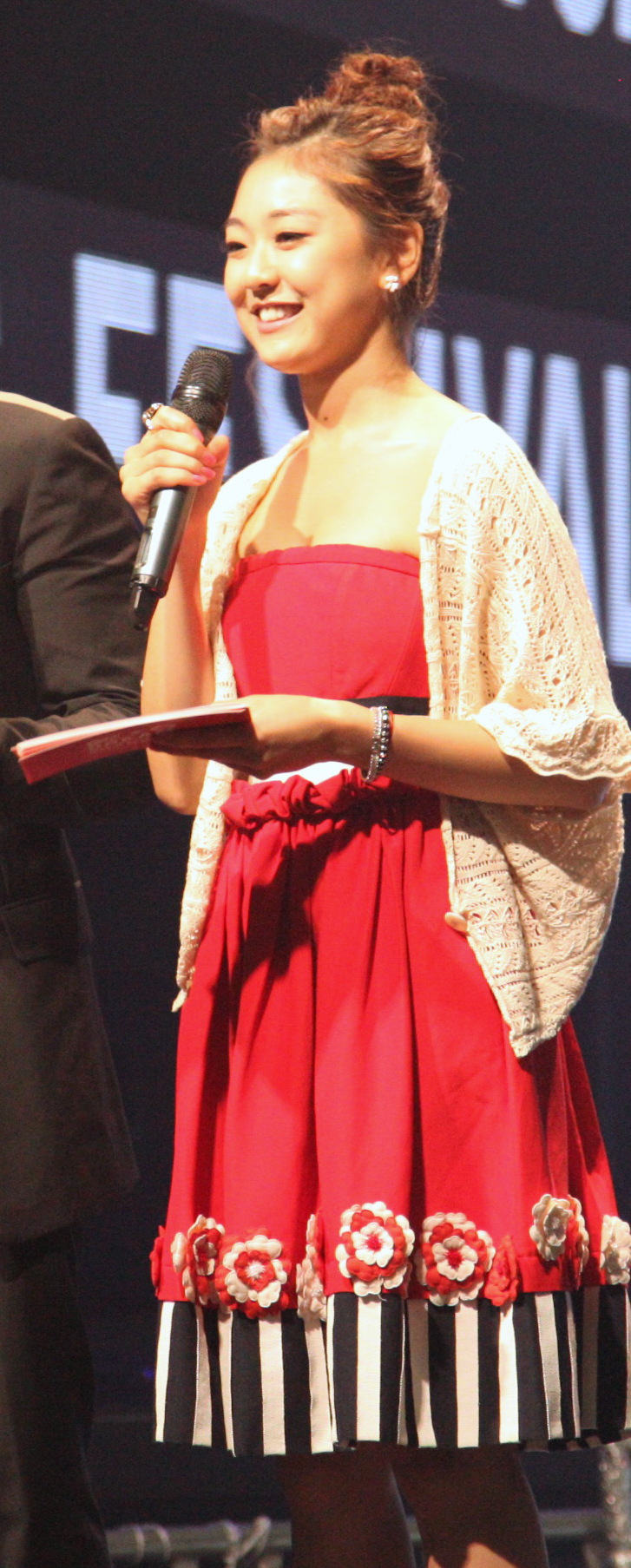 Cyworld Dream Music Festival 싸이월드 드림 뮤직 페스티벌 풍경_04